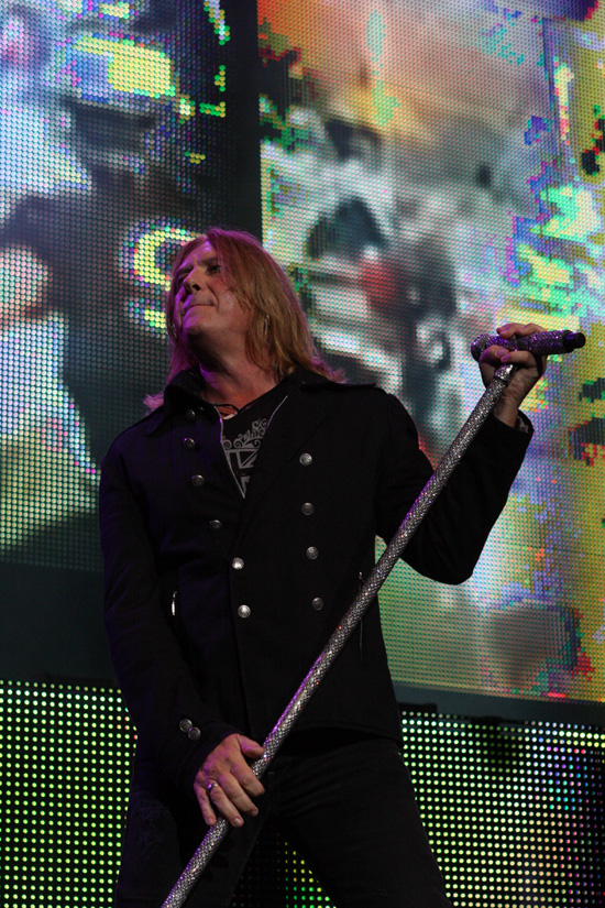 Def Leppard go hard in Sydney Australia Def Leppard have still got it. Rolling Stone Magazine, the music and entertainment bible, may have labeled the British rock group the "unluckiest band in the world", but the fans and media tonight sure felt lucky to experience them live. They headlined the Sydney Entertainment Centre tonight, and support group, Heart, showed they had plenty of that. It was Heart's first Australian tour believe it or not and Ann and Nancy Wilson sounded fantastic. We understand Def Leppard are just coming off a rest, having spent more than a decade on the road. One may have thought that DL may have slowed down quite a bit, but this wasn't the case. The boys - Phil Collen, Rick Savage, Rick Allen and Vivian Campbell fronted by Elliot, we're here to party big time. They offered up loud, monster rock, helped along with fist pumping and strong crowd support, joining in for much of the fun. The track list included Rocket, Animal, Let’s Get Rocked Two Steps Behind. Base man Savage and the strong one-armed drummer Allen led the open. The number that many of the crowd had come to see was Pour Some Sugar On Me, with fans going nutso. Like fellow rock gods, The Rolling Stones, age has hardly put a dent in their performance or sound. The Sydney Entertainment Centre has been the Sydney home to a lot of great rock bands over the past year and Def Leppard need not play second fiddle to anyone. Heart gave it their all too. Rock on. Websites Def Leppard Heart Sydney Entertainment Centre Eva Rinaldi Photography Flickr Eva Rinaldi Photography Music News Australia